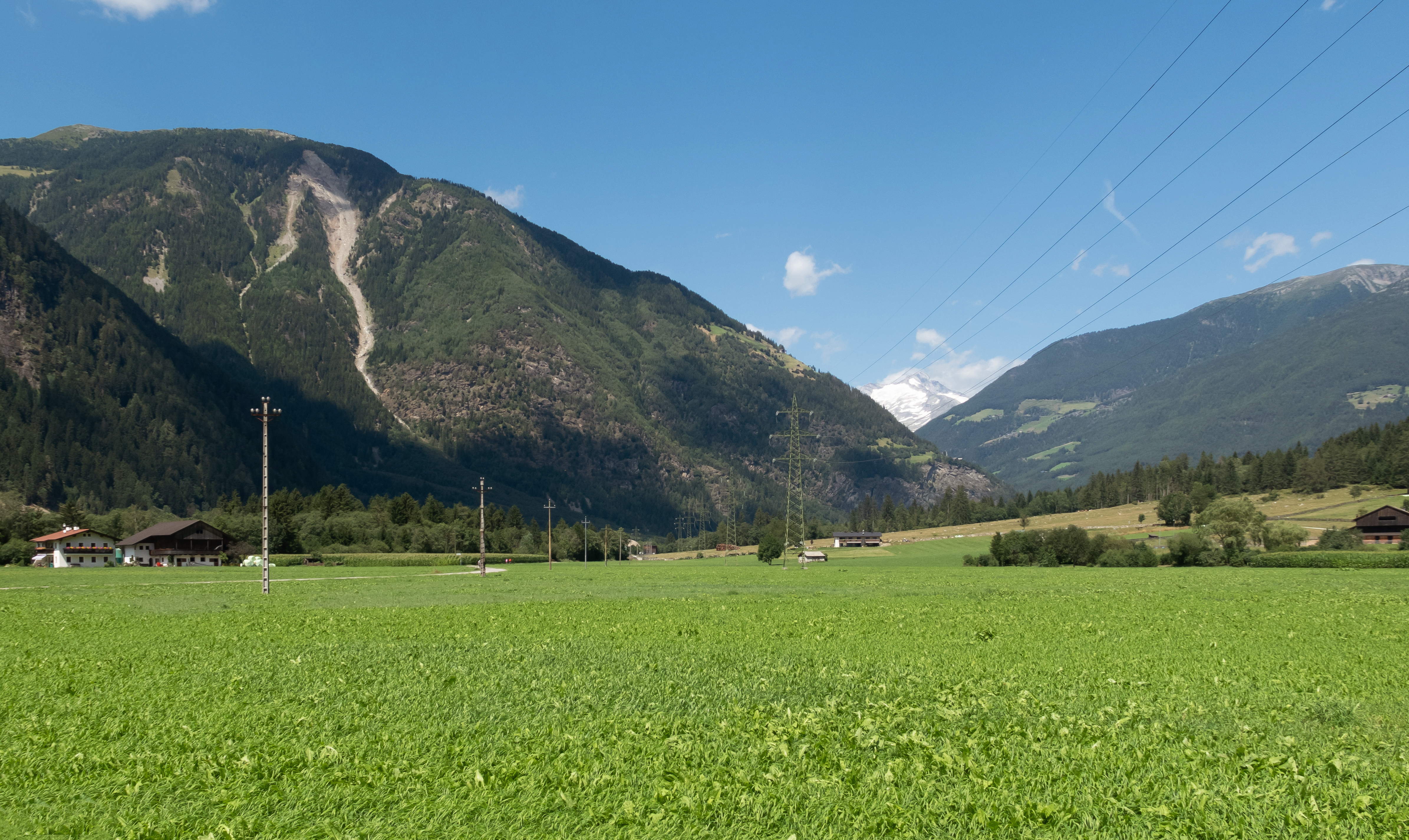 near Gais-Uttenheim, panorama